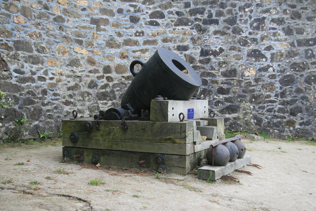 Crimean siege mortar Cast 1856 and weighs 5 tons. 13" bore with a choked barrel. Built by local company Harveys of Hayle.